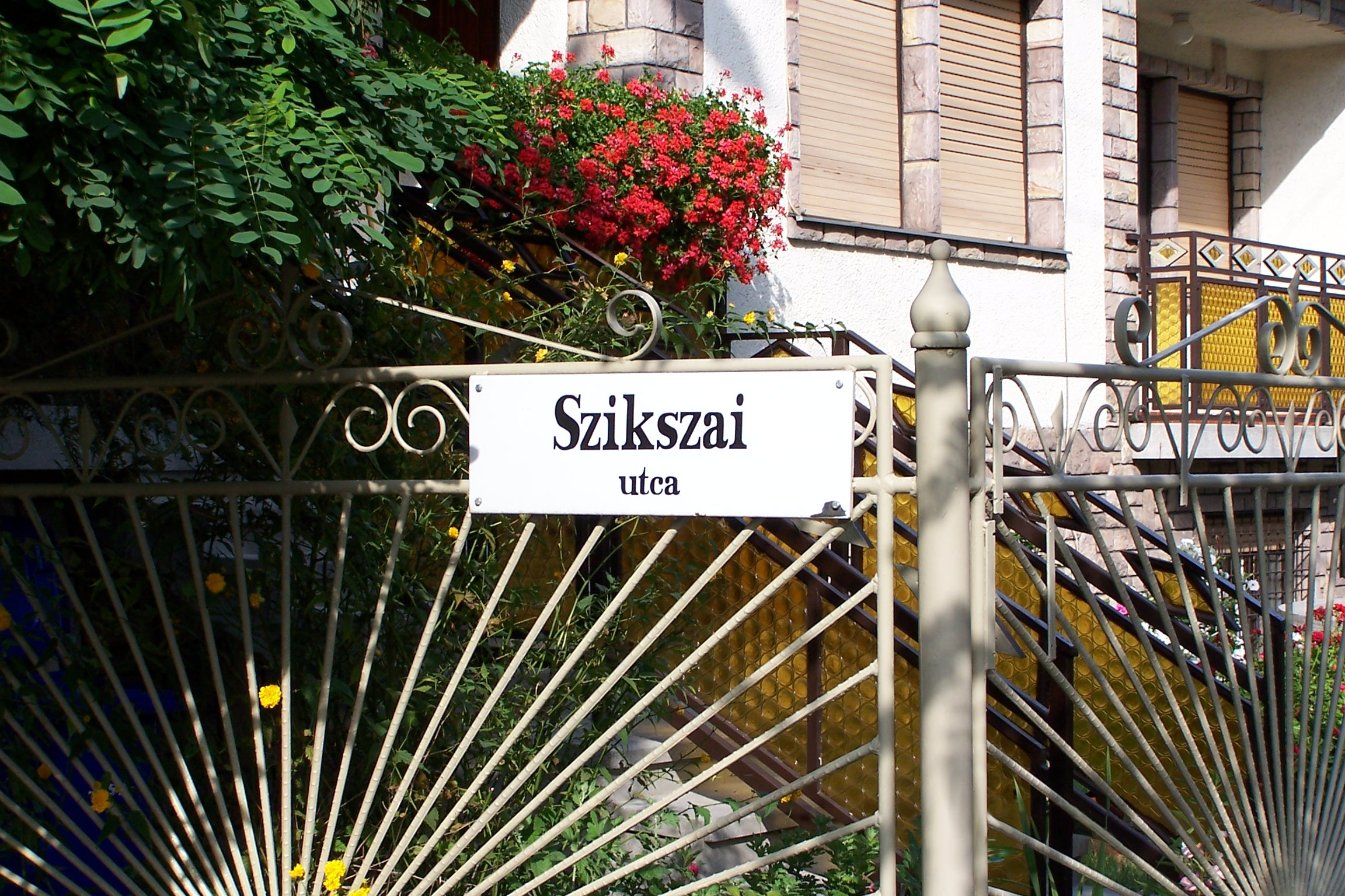 The Szikszai street in Debrecen